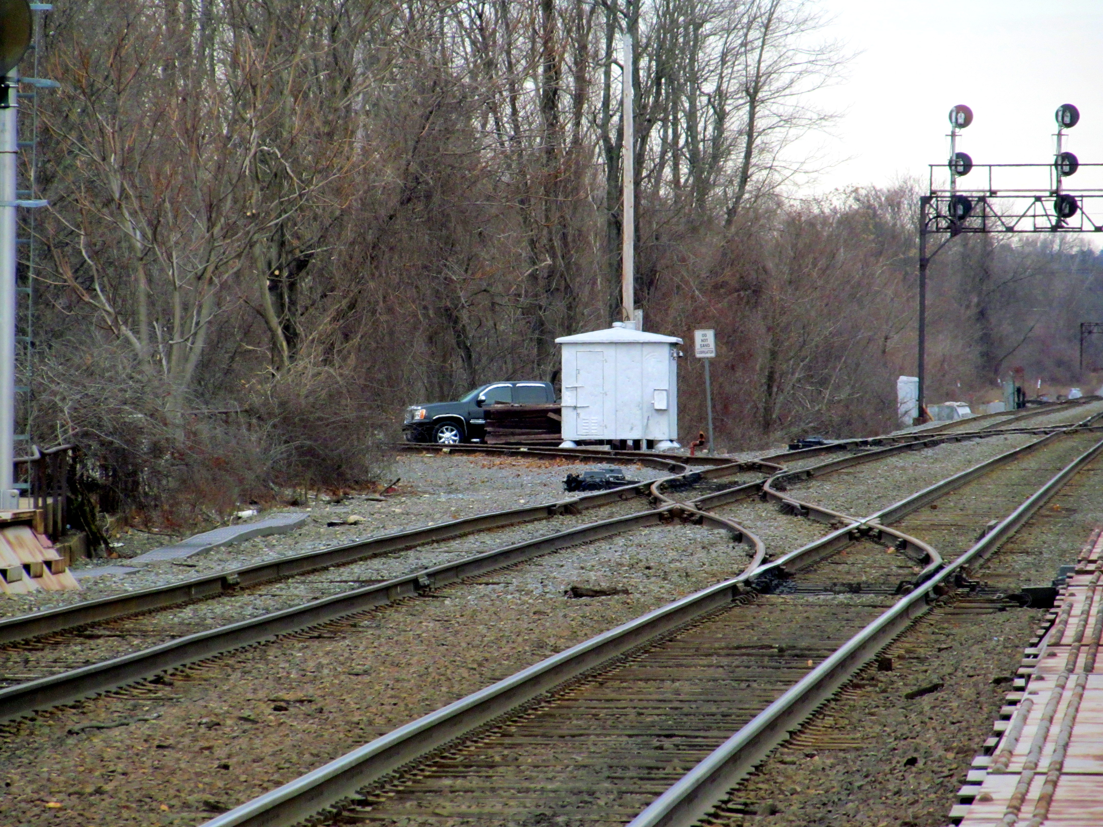 The junction of the former Woburn Branch from the Lowell Line at Winchester Interlocking, viewed from the Winchester Centre northbound platform